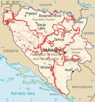 Minefield map of BiH, the heaviest mined country in Europe, as of september 2008. Source: base map: File:Bk-map.png information on minefields gathered from BHMAC, MINE.BA and EUFOR/NATO